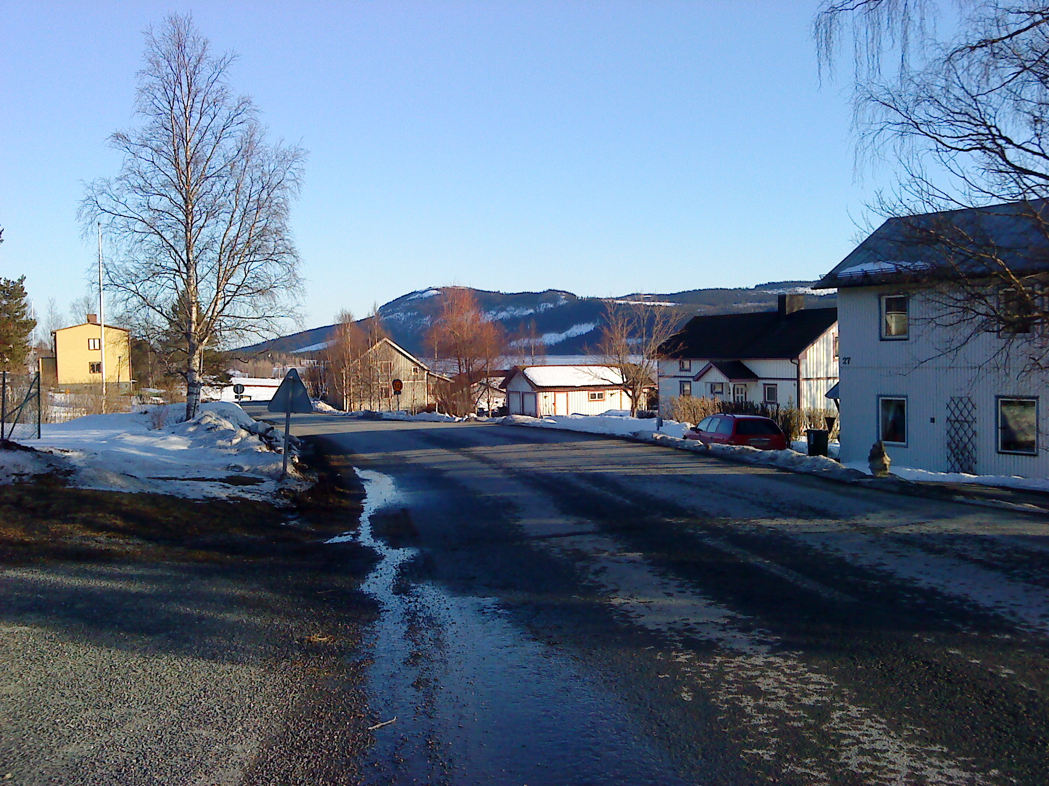 Kaxås, Offerdal, Krokoms kommun, Jämtland, Sweden.